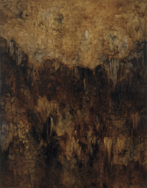 Pierre Dmitrienko, 1960, "Pluie dorée", oil on canvas, 190x150cm